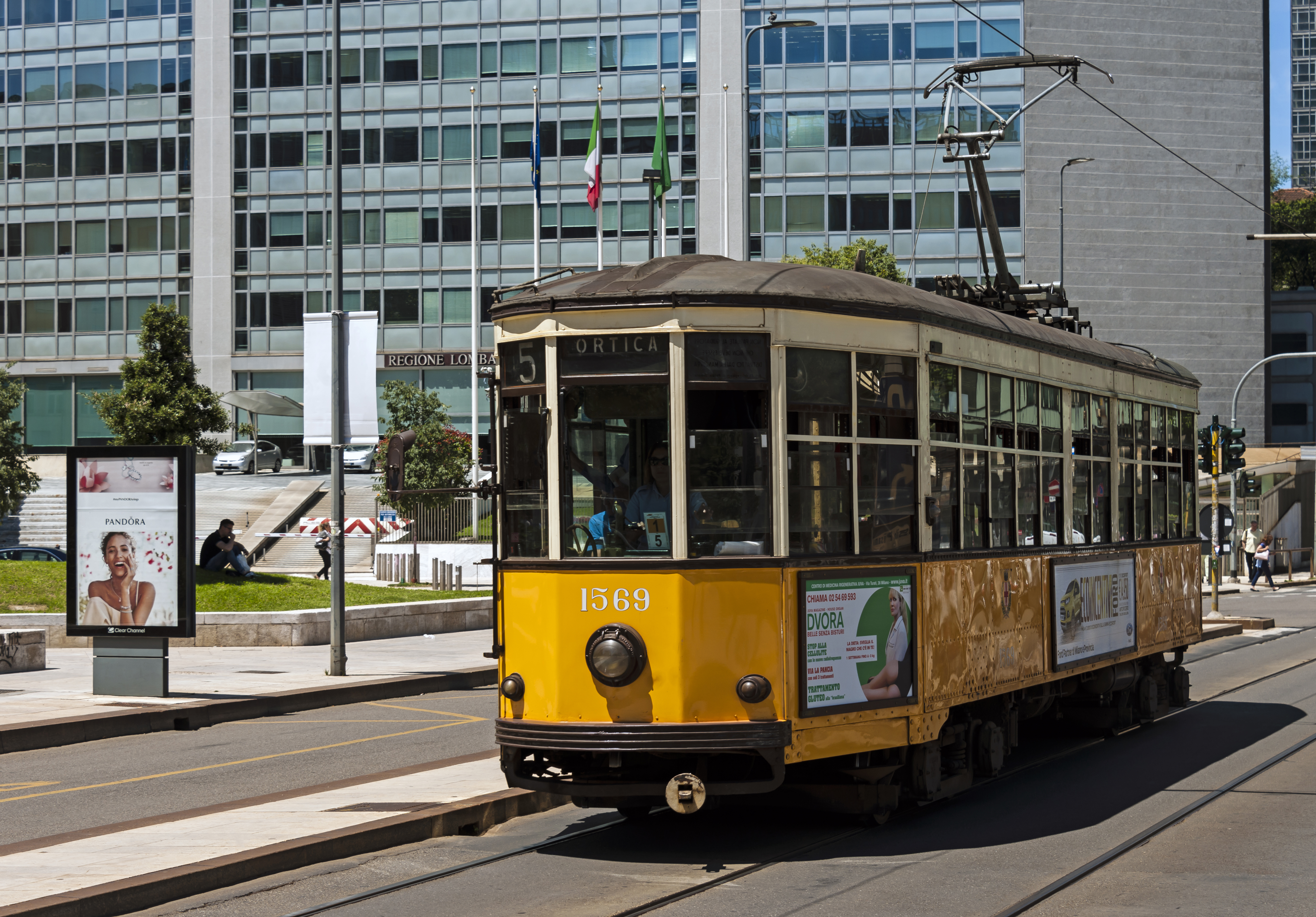 An ATM 1500 tram on the south side of the Piazza Duca d'Aosta, Milan.